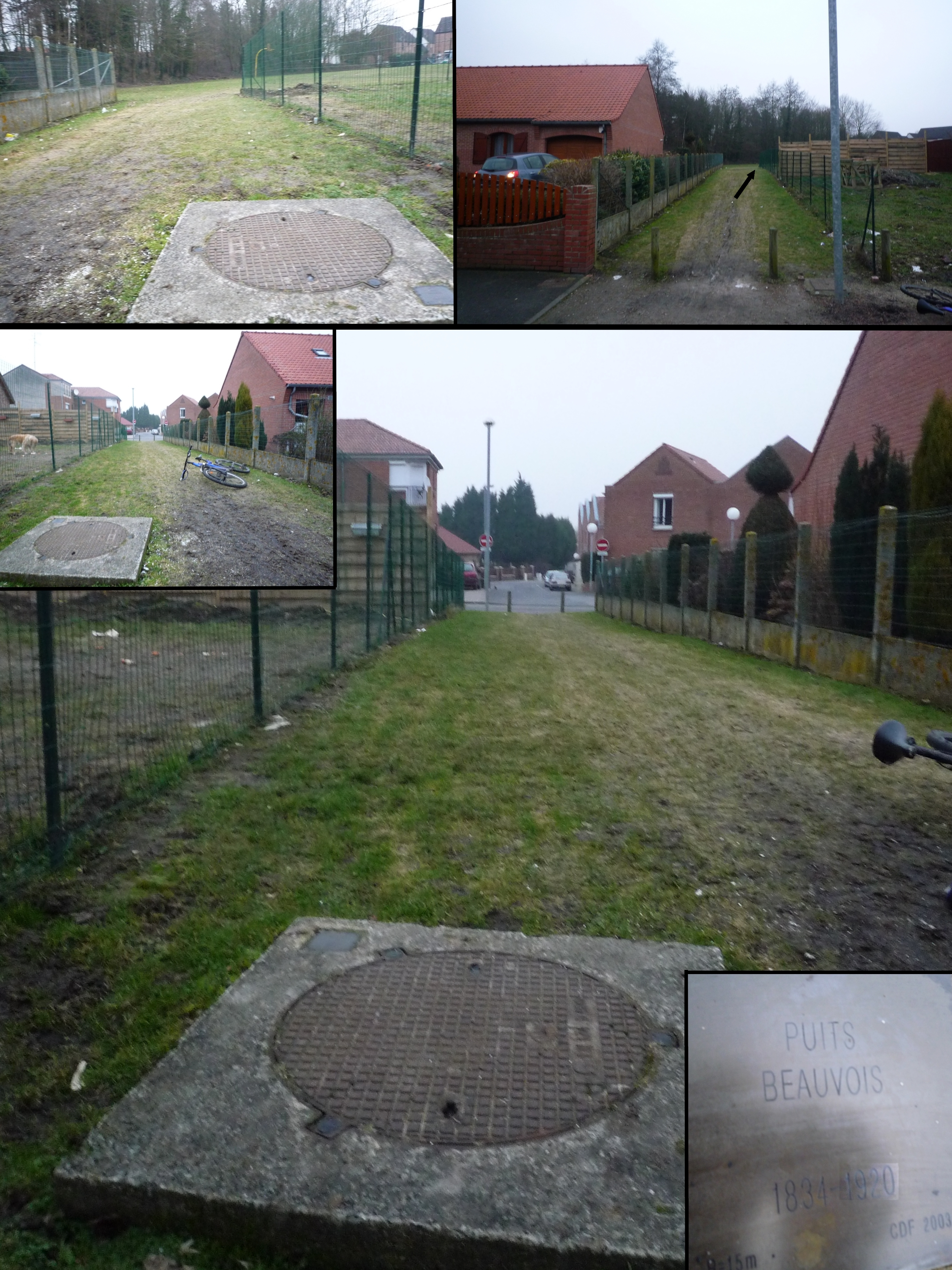 Pit Beauvois, Compagnie des mines de Douchy, Lourches, Nord, Nord-Pas-de-Calais, France.